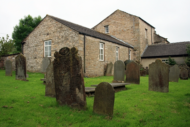 Sandemanian graveyard, Gayle The Sandemanians were an 18th century breakaway from the Scottish Presbyterians who, among other things, believed in common ownership of property. The former chapel (the single storey building) is now the village institute.